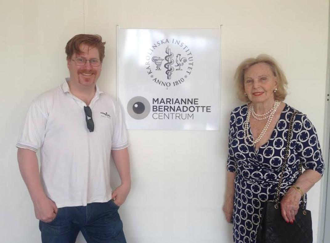 Emil Eikner & Princess Marianne Bernadotte entering Marianne Bernadotte Centrum for a private tourPlace: Caroline Institute, St. Erik Hospital, Polhemsgatan 56, Stockholm, Sweden